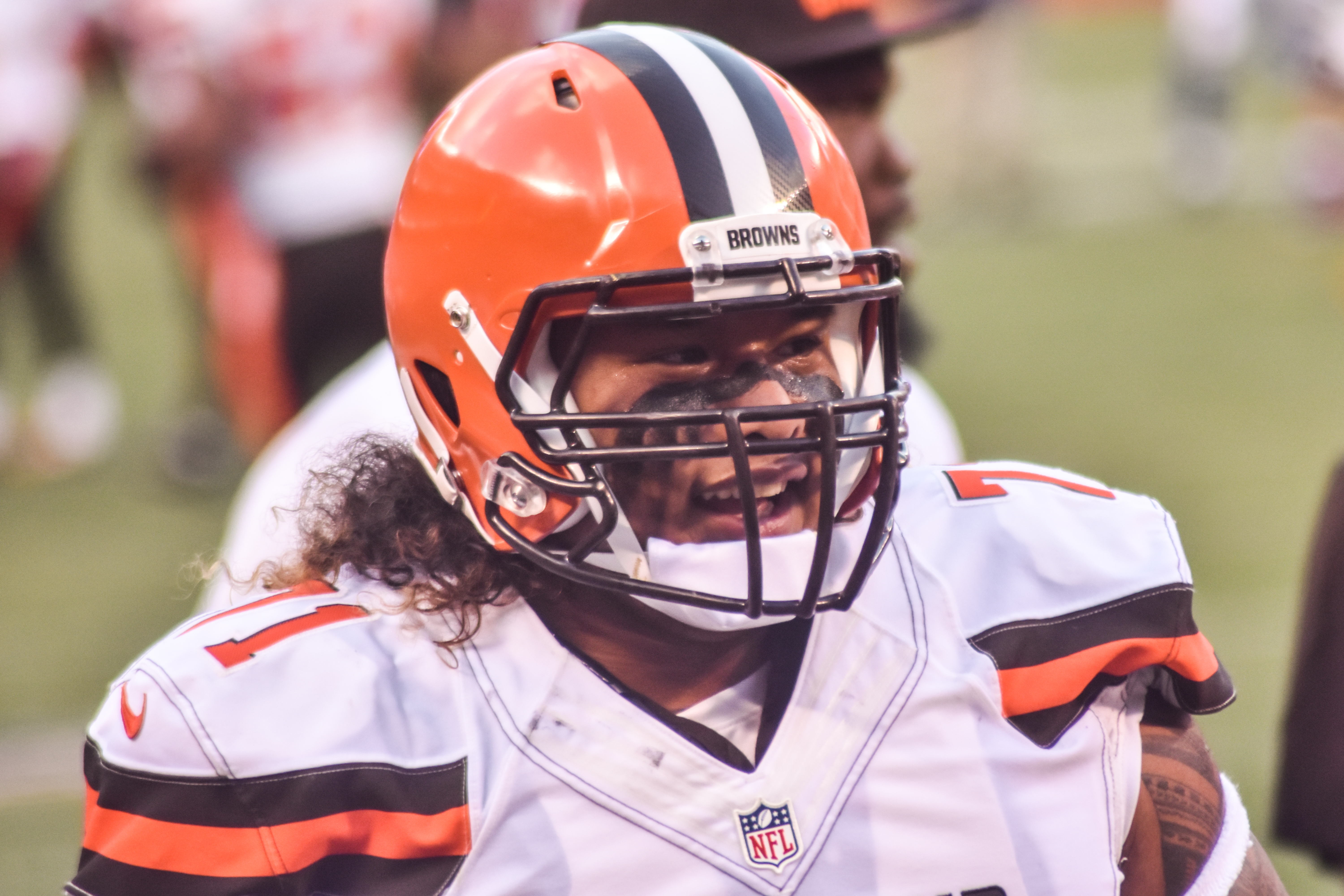 Browns vs Bills